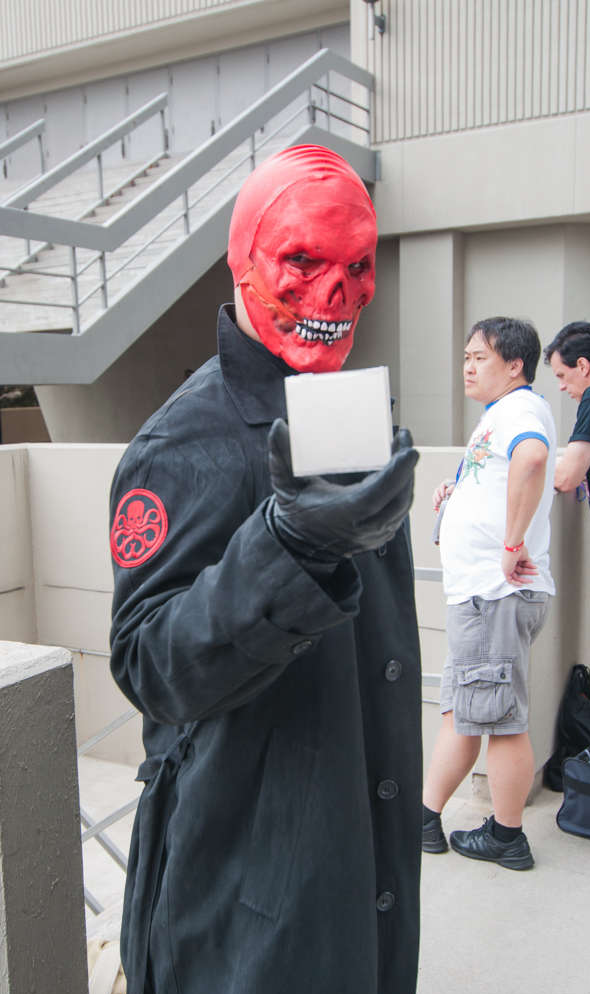 DragonCon 2012 - Marvel and Avengers photoshoot